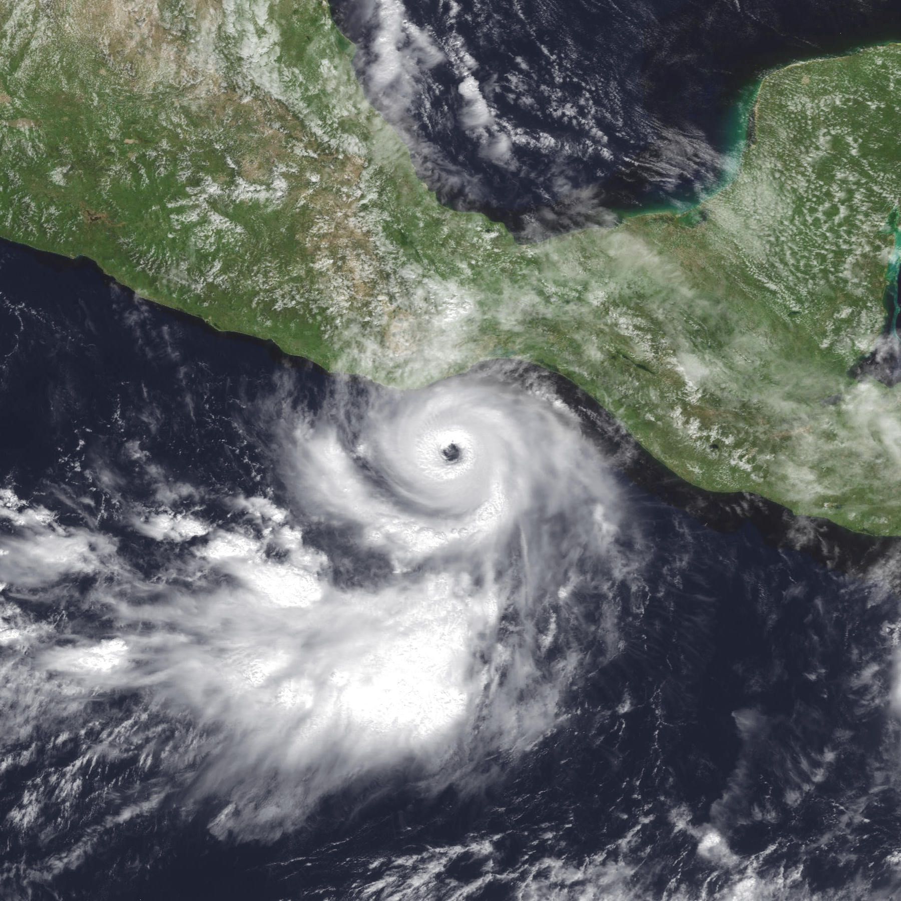 Hurricane Lester as a Category 2 hurricane off the south coast of Mexico on October 17, 1998